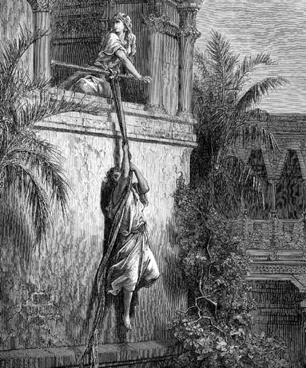 Michal lets David escape from the window. A painting by Gustave Doré, 1865.